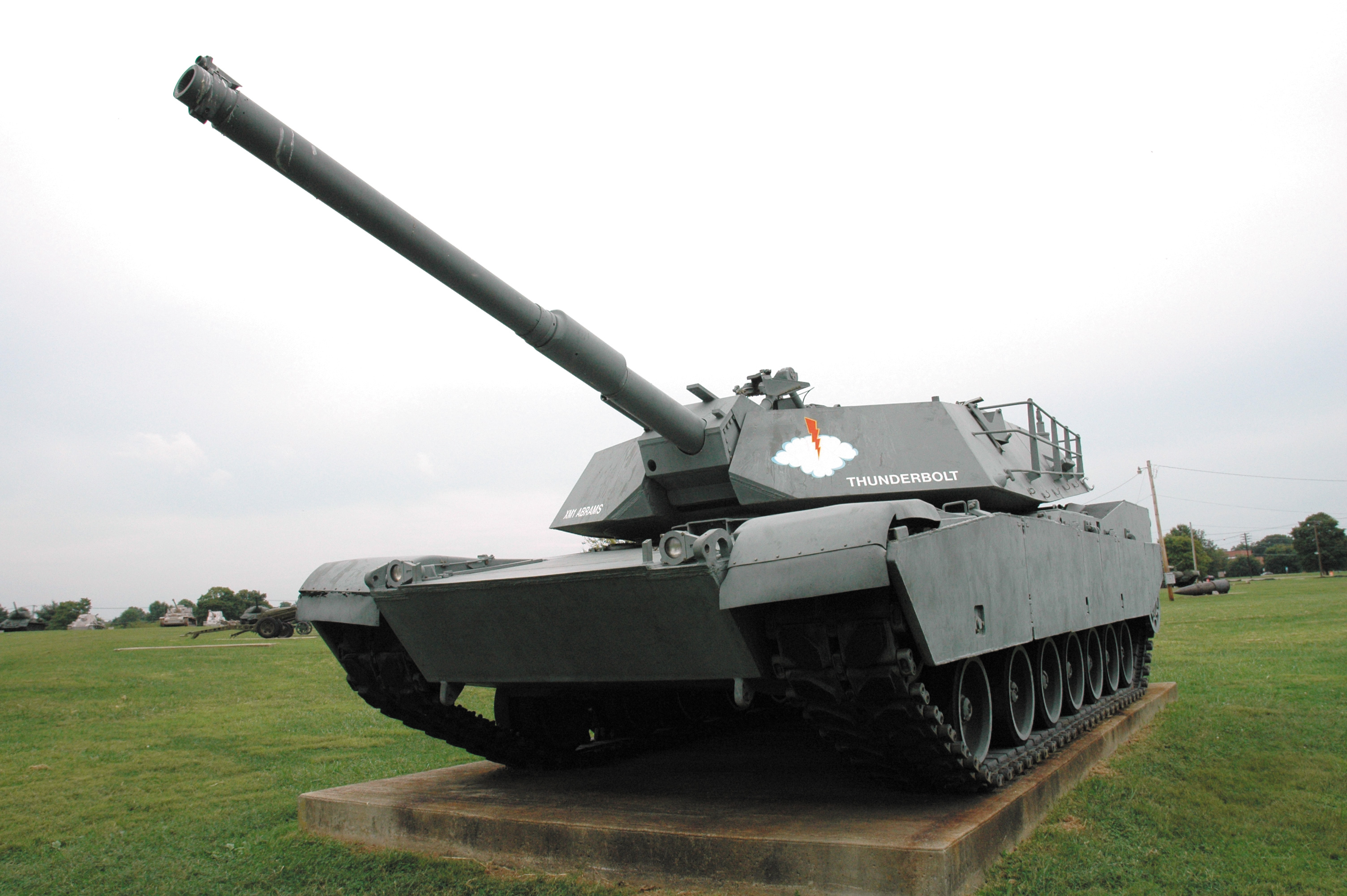 This M-1 main battle tank was one of the first models off the production line in 1980 and was used for various testing at Aberdeen Proving Ground.